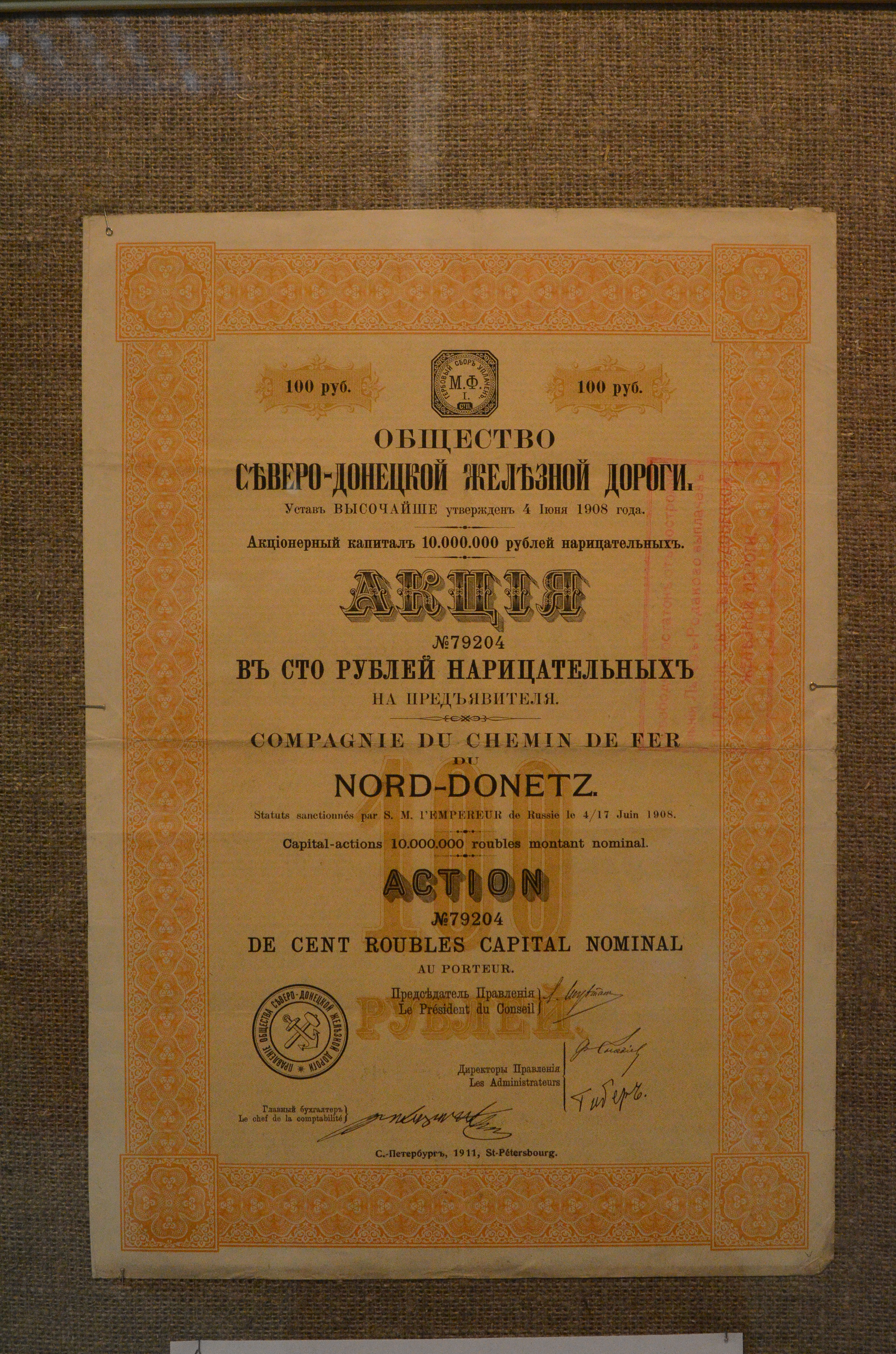 Stock certificate of North-Donetsk RailWay - The Night of Industrial Culture in Donetsk, 2013